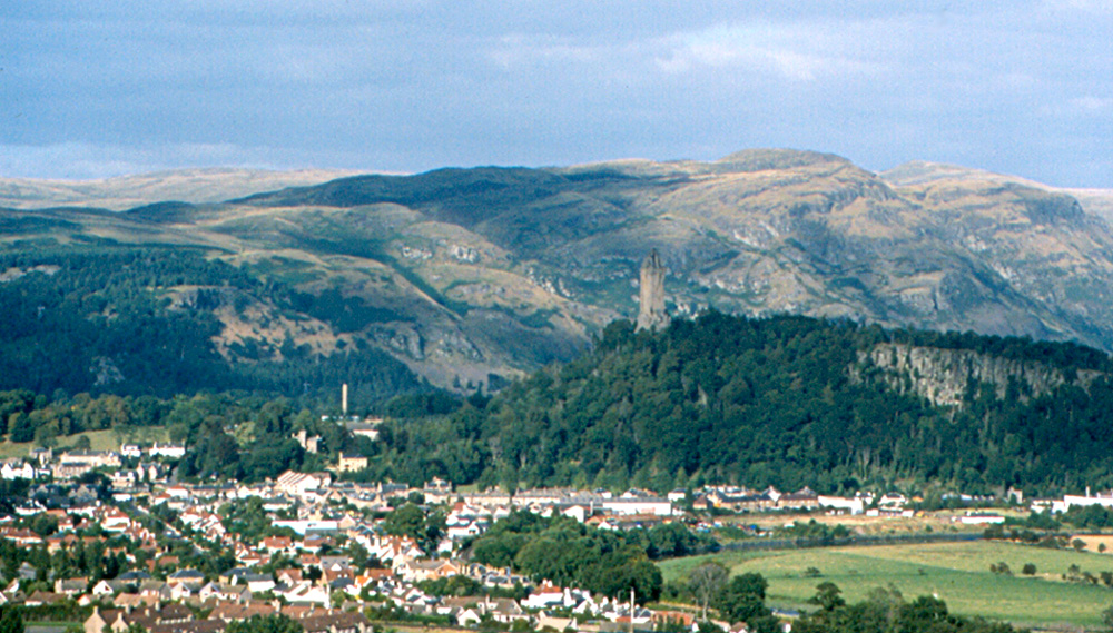 Looking northeast from Stirling Castle over the city to Wallace Monument. The hills in the background show the strategic importance of Stirling. The routes through the hills converged on Stirling.